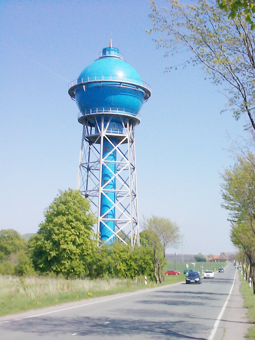 Ahlen, Germany. Historical water tower, built 1915, out of order since 1985, volume 1,000 cubic metre, heigth circa 35 m, diameter 13 m, technical monument.